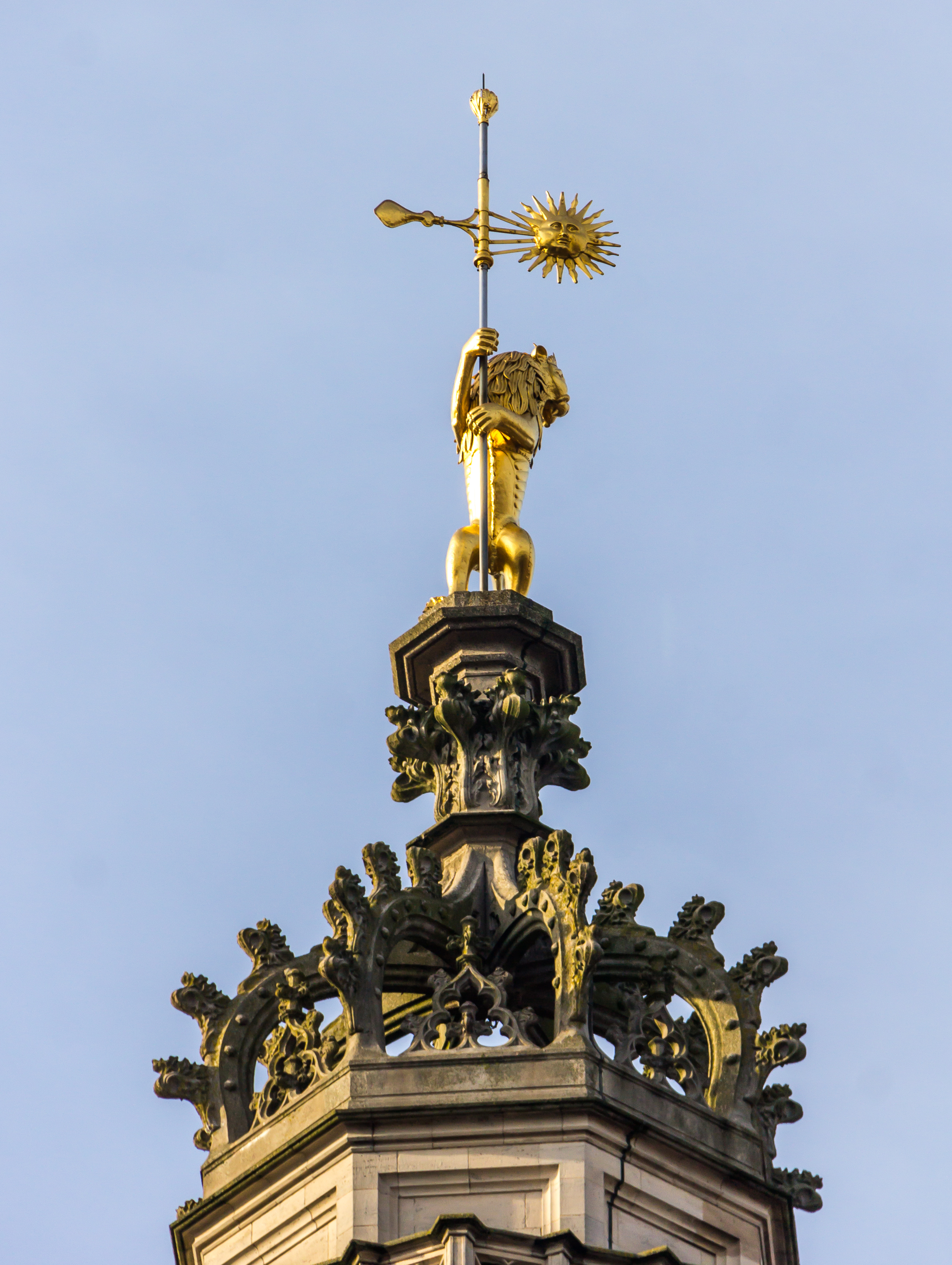 Town hall of Arras, Nord-Pas-de-Calais, France .